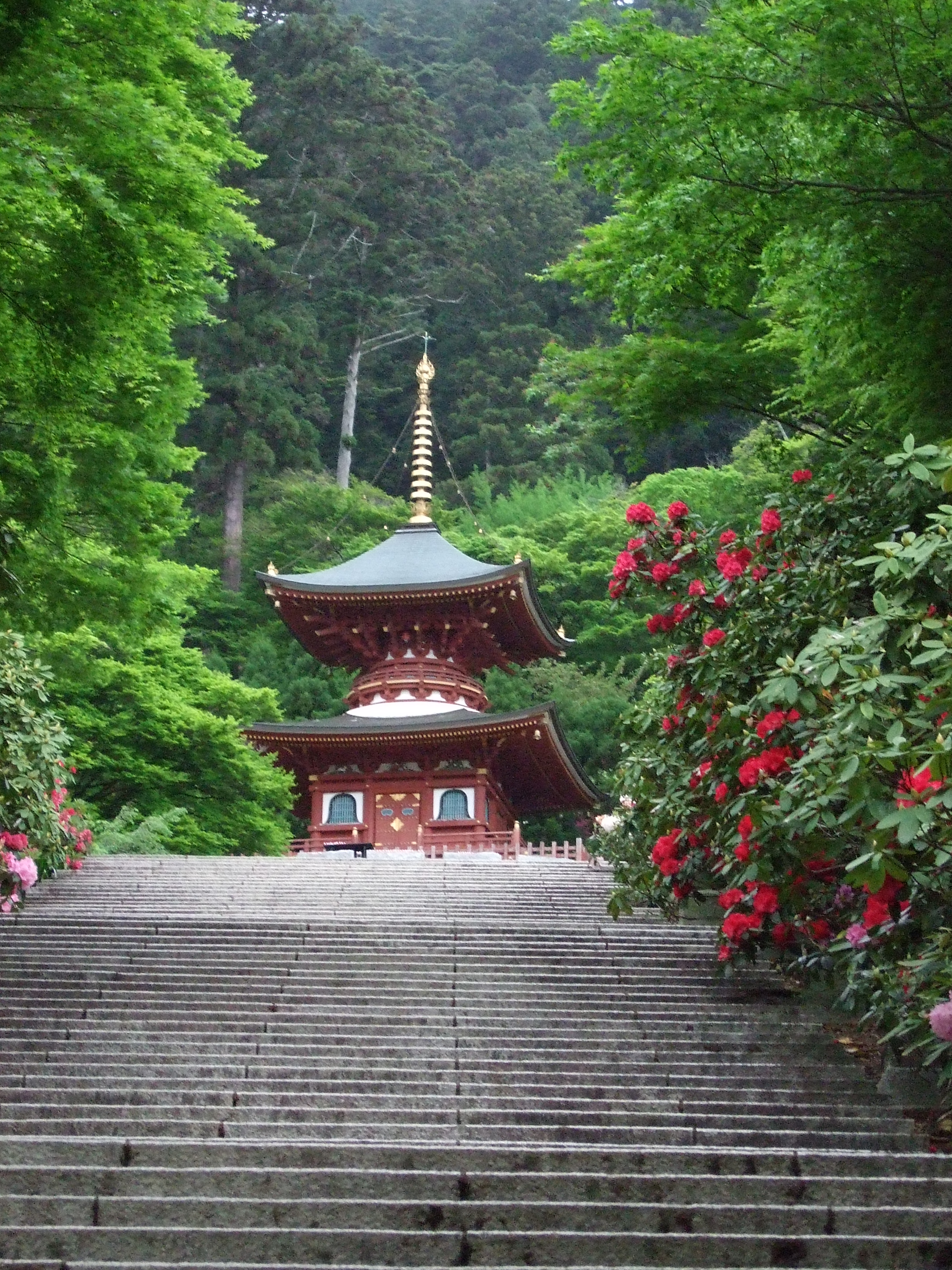 Japanese[edit] ファイルの概要[edit] Description